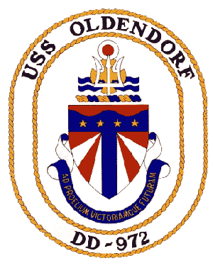 Ship's crest from USS Oldendorf